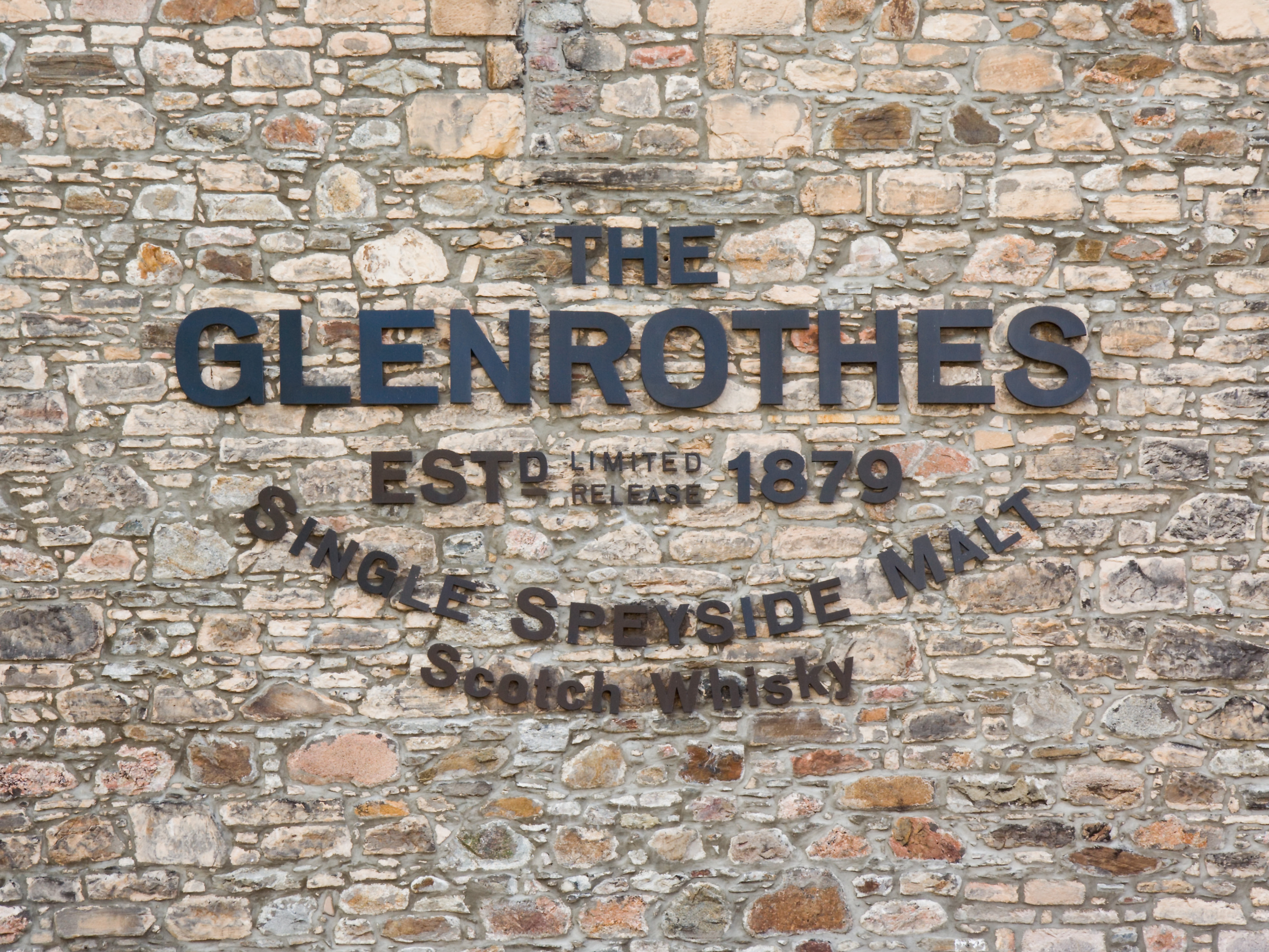 Letters on the Glenrothes distillery walls; Glenrothes, Fife, Scotland